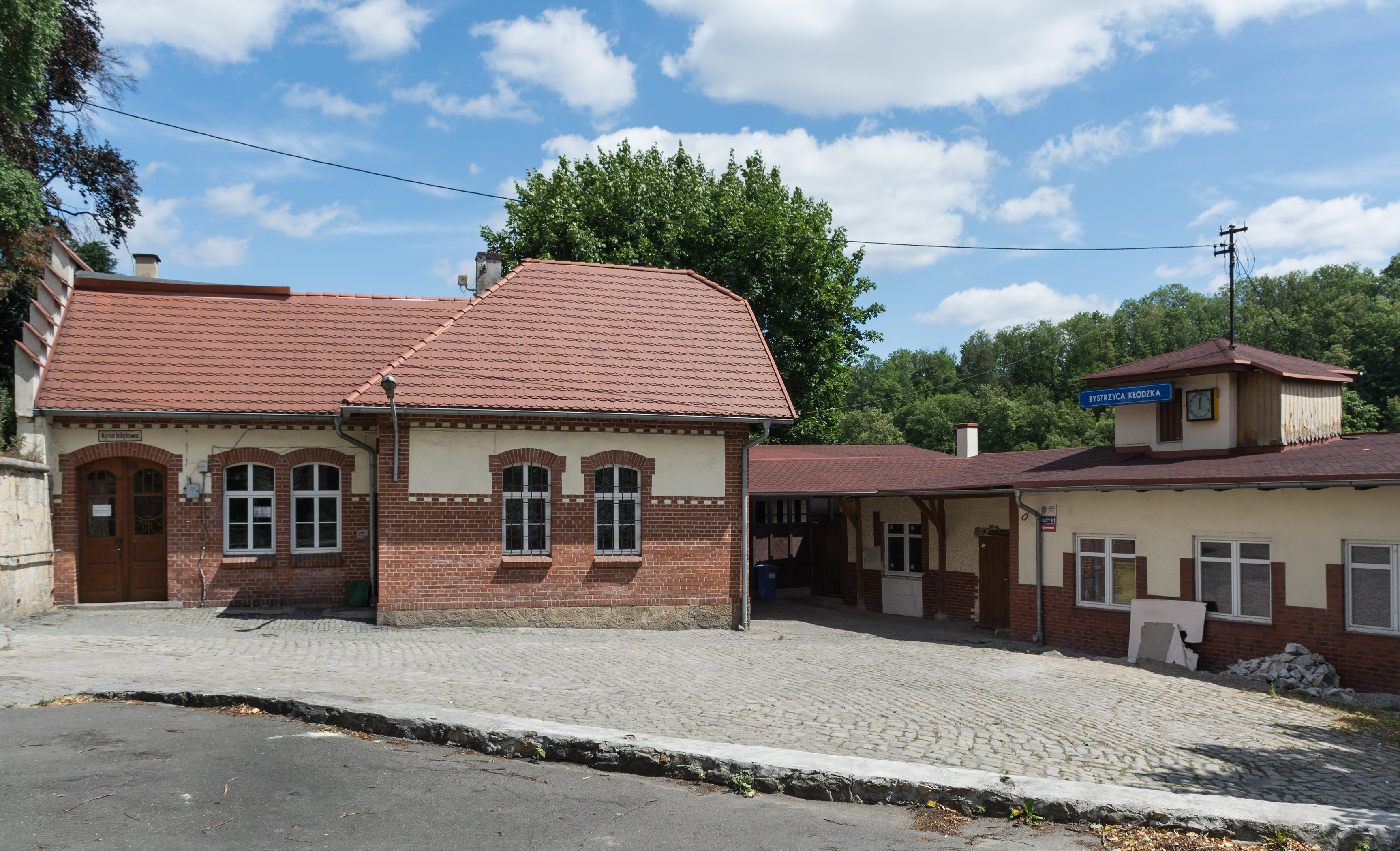 Bystrzyca Kłodzka train station